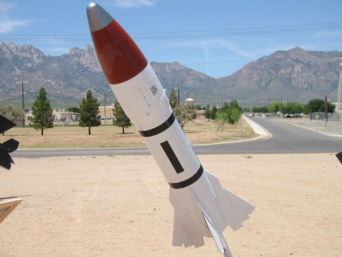 Genie Rakete